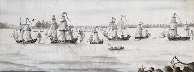 A watercolor depiction of the British fleet before the 1776 Battle of Valcour Island. Title of the painting: His Majesty's Vessels on Lake Champlain commanded by Commodore Thomas Pringle, R.N., including the ships H.M. Carleton, Inflexible, Maria, Convert, Thunderer, as well as a long boat and some gun boats.